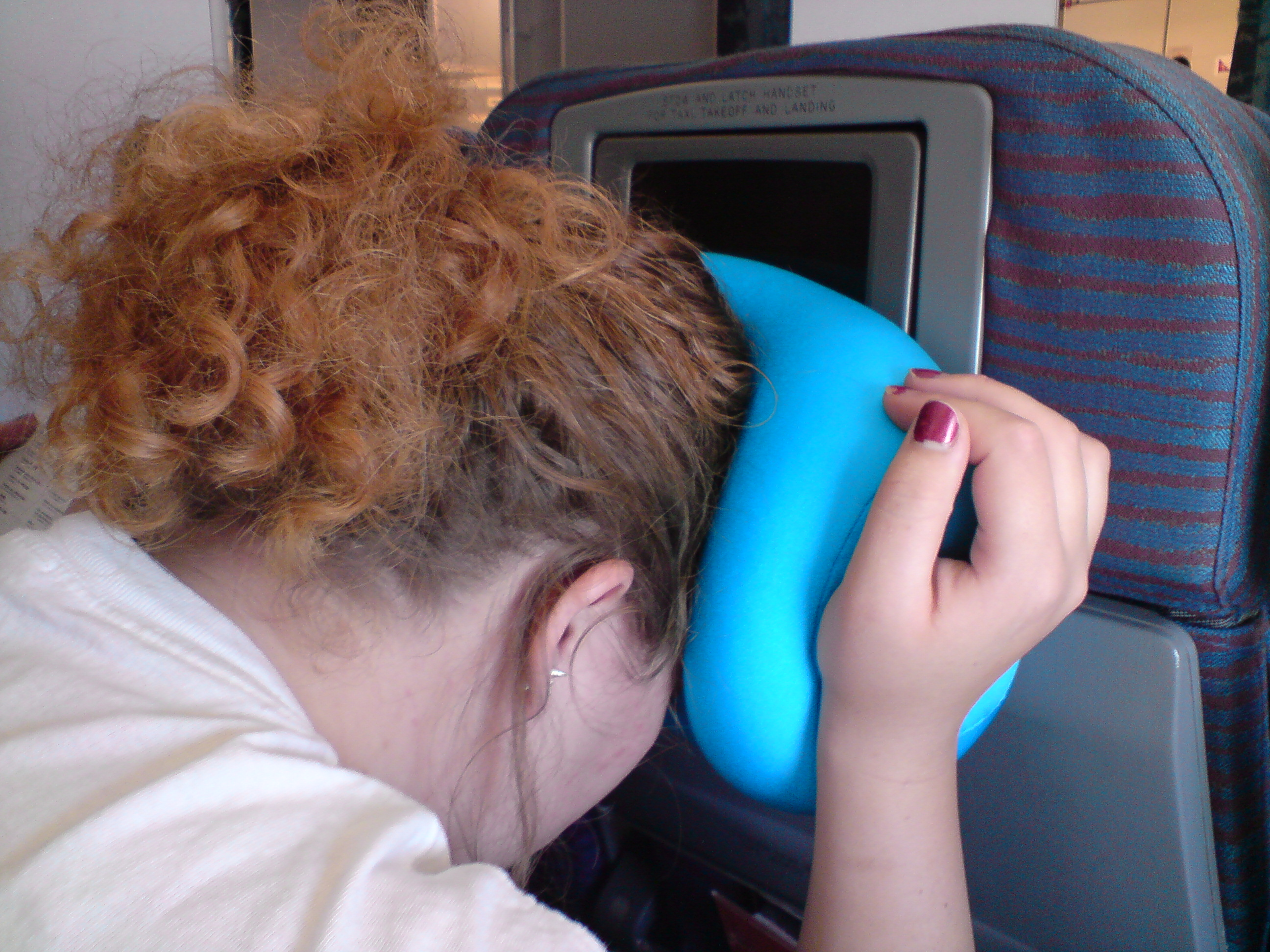 A demonstration of the brace position on a passenger airliner